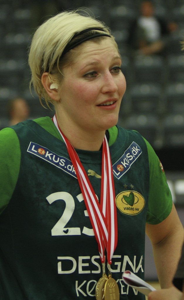 Anja Althaus in Viborg Handball Club jersey